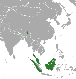 Tailess Fruit Bat (Megaerops ecaudatus) range